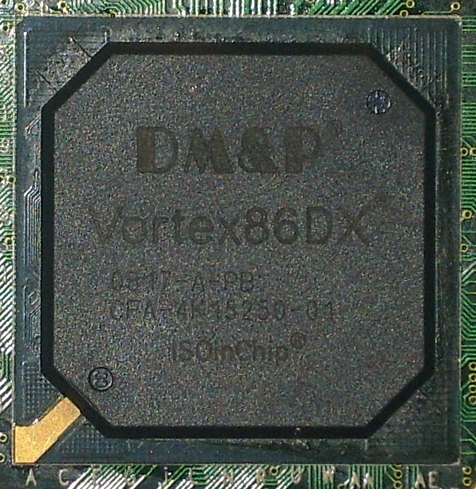 DM&P Vortex86DX08.17-A-PBOFA-41115230-01ISOinChip®